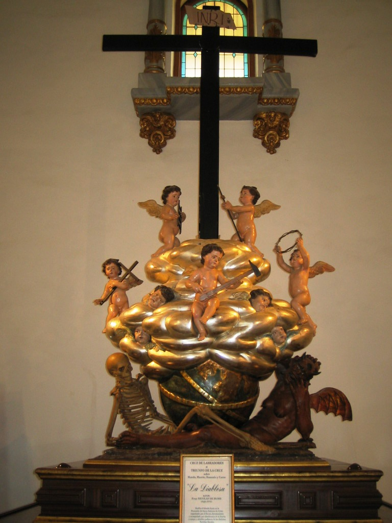 "El Triunfo de la Cruz", Easter "paso" of Orihuela